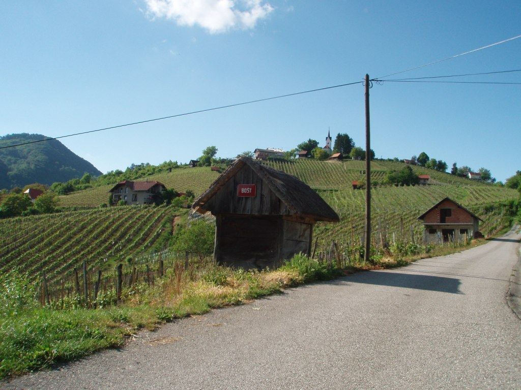 The least wineyard cottage in Slovenia, placed in Bizeljsko.